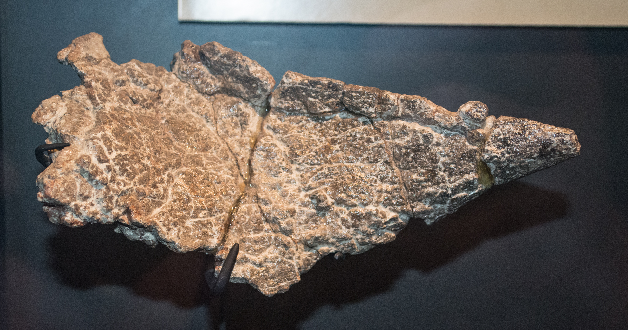 Sauropelta edwardsorum armor plate - Museum of the Rockies